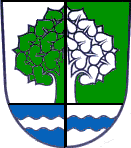 Coat of arms of Steuden, Part of Teutschenthal